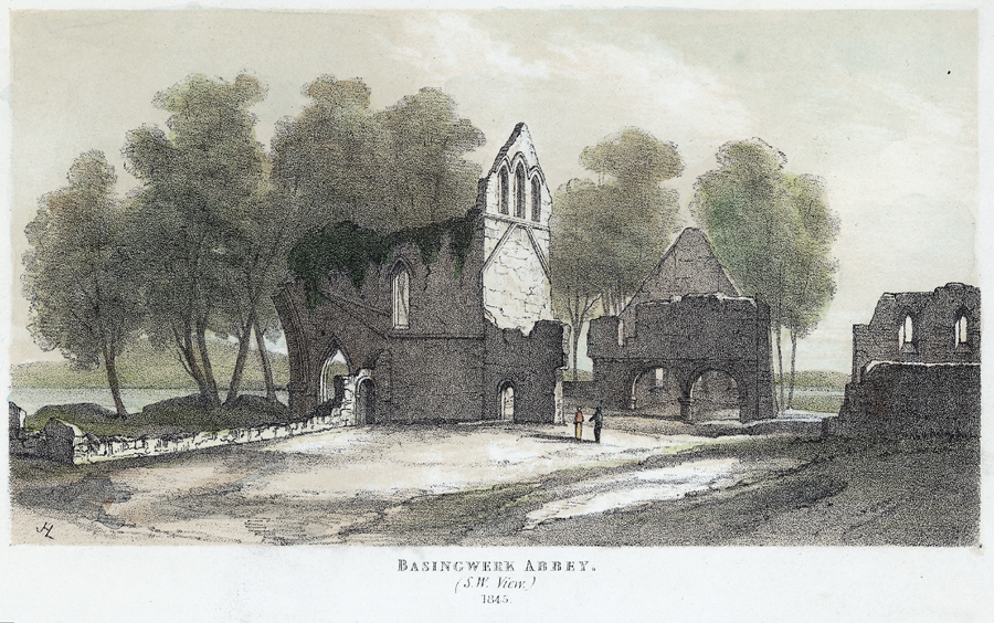 Two figures viewing the ruins.